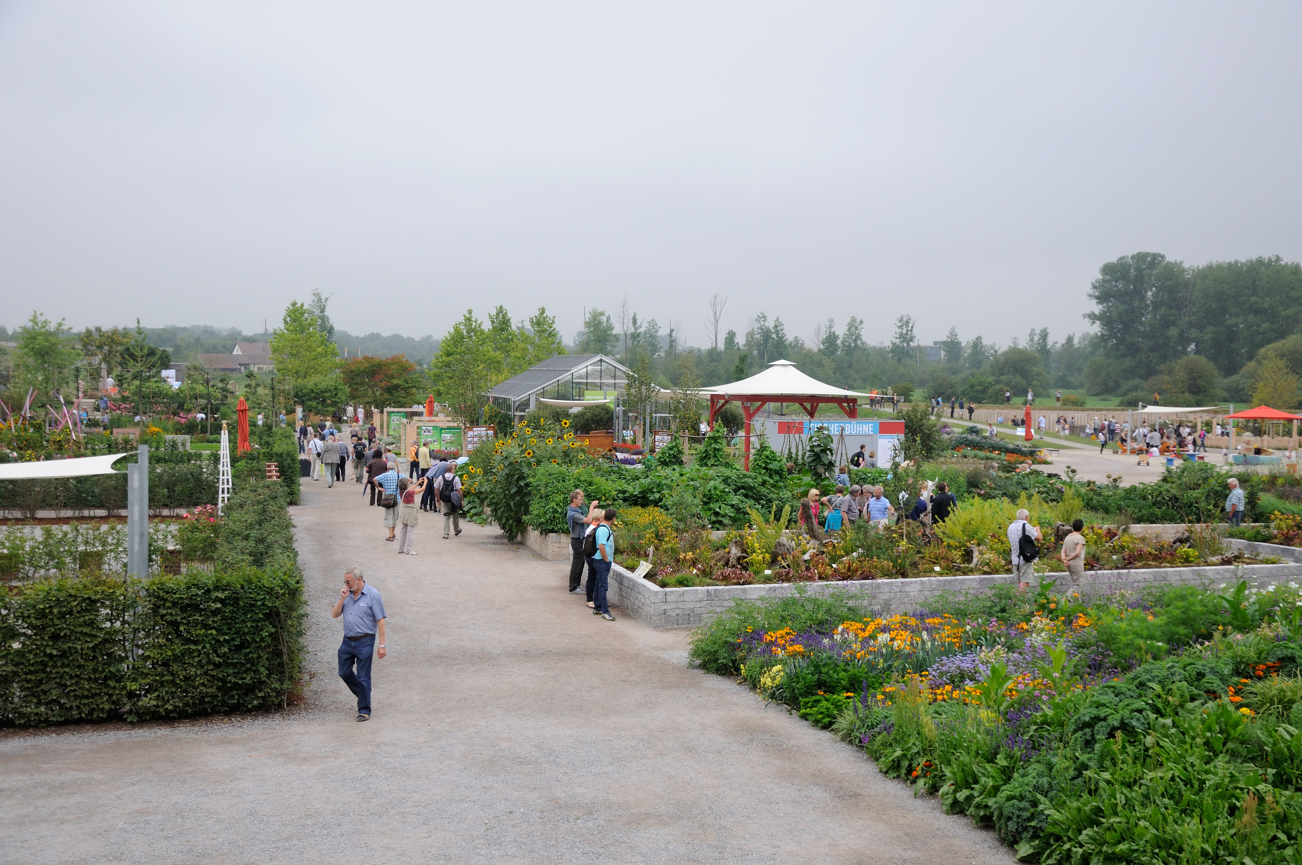 Germany, Bavaria, impressions from the Landesgartenschau in Deggendorf